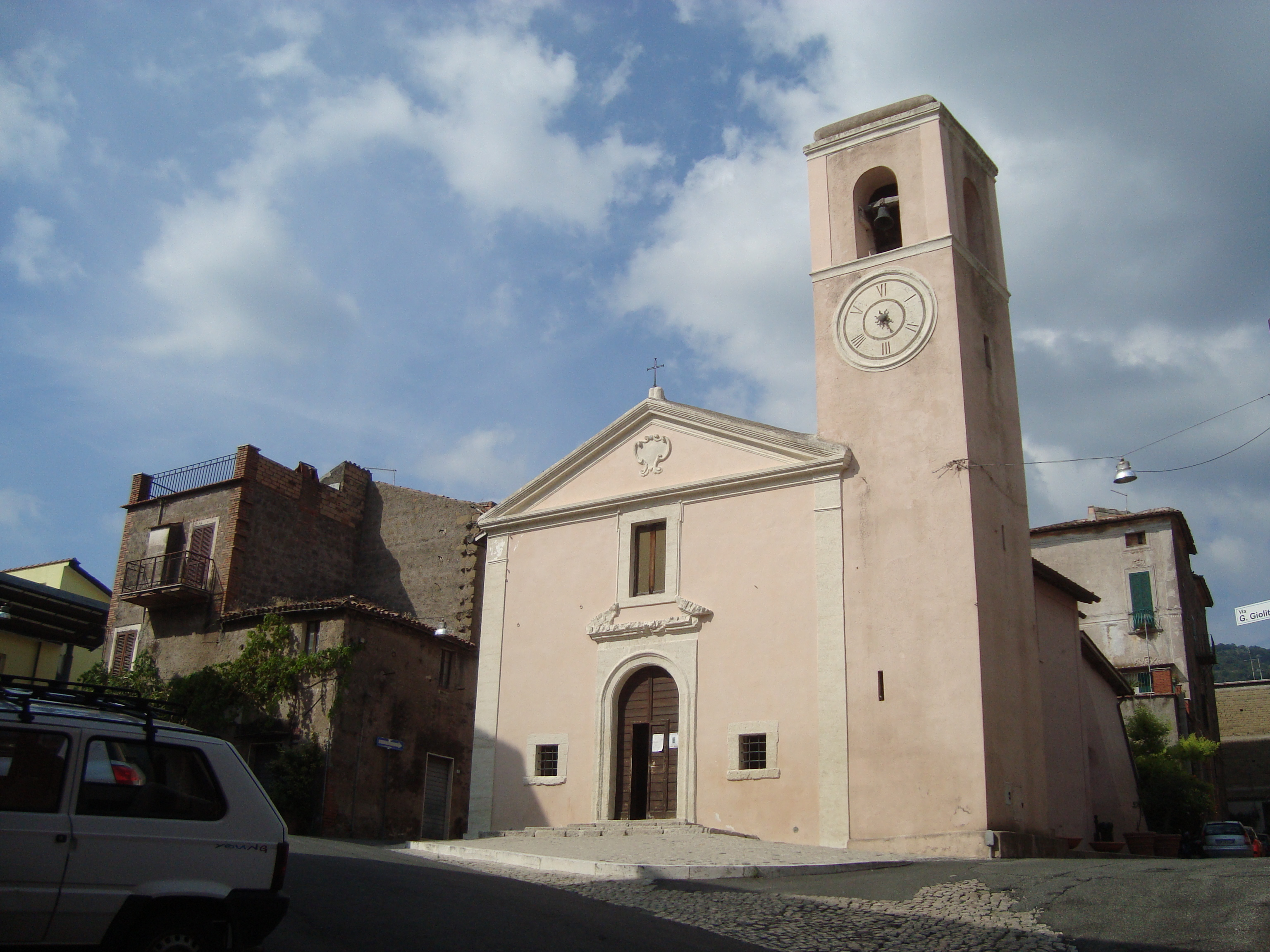 Church San Sebastiano in San Gregorio da Sassola